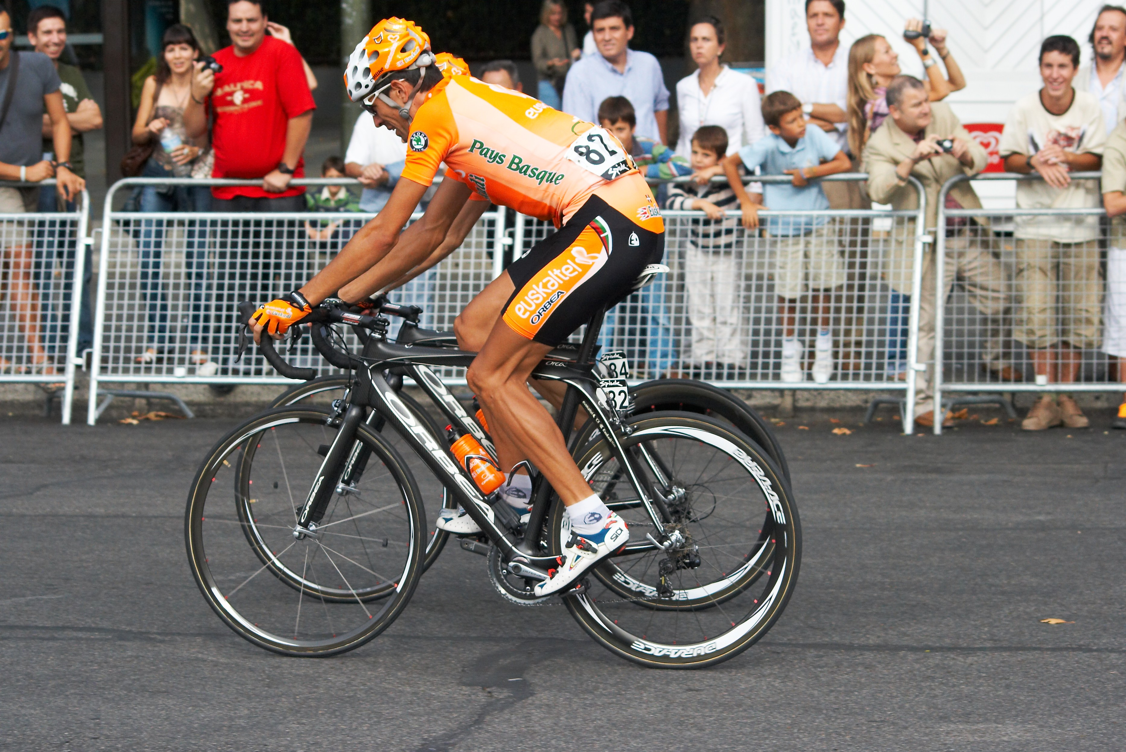 PEREZ MORENO Ruben (87/ESP) and LANDALUZE INTXAURRAGA Inigo (84/ESP), 2008 Vuelta a España, Madrid, Spain.